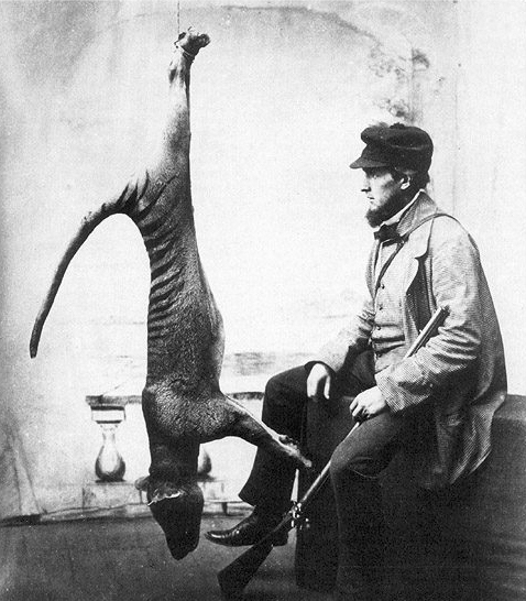 This iconic image of a bagged thylacine featuring Mr. Weaver in a studio portrait is repeatedly published yet it is not attributed. It may have been taken by Victor Prout who sojourned briefly in Tasmania in the late 1860s but is known and praised for his excellent panoramas of Sydney Harbour by contemporary photohistorians.